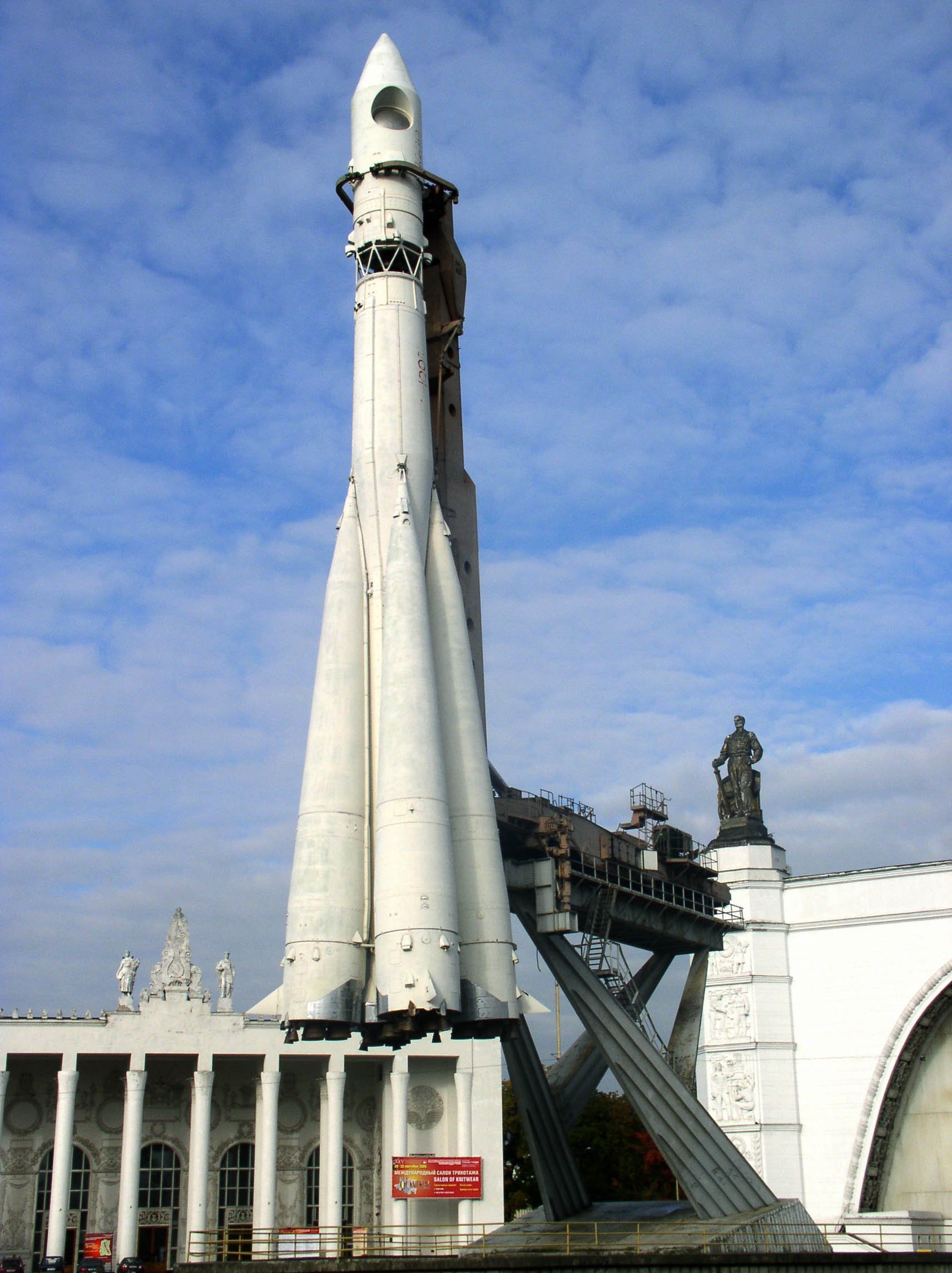 Rocket R-7. All-Russian Exhibition Center. Moscow, Russia.